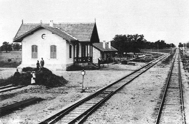 Train station Gare Militaire in Dedeağaç, Ottoman Empire (now Alexandroupolis, Greece).